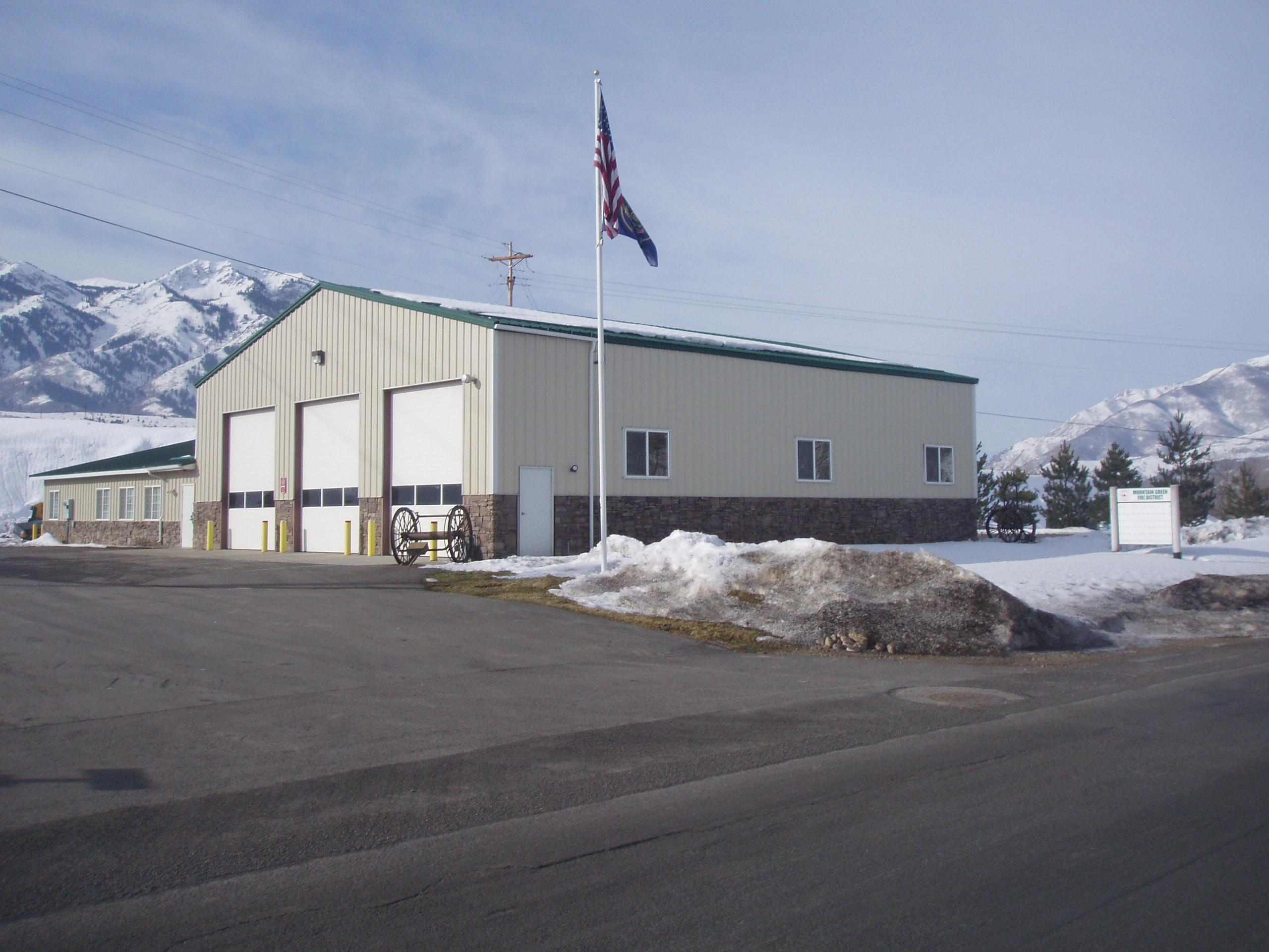 Mountain Green Fire District, Mountain Green, Utah, United States